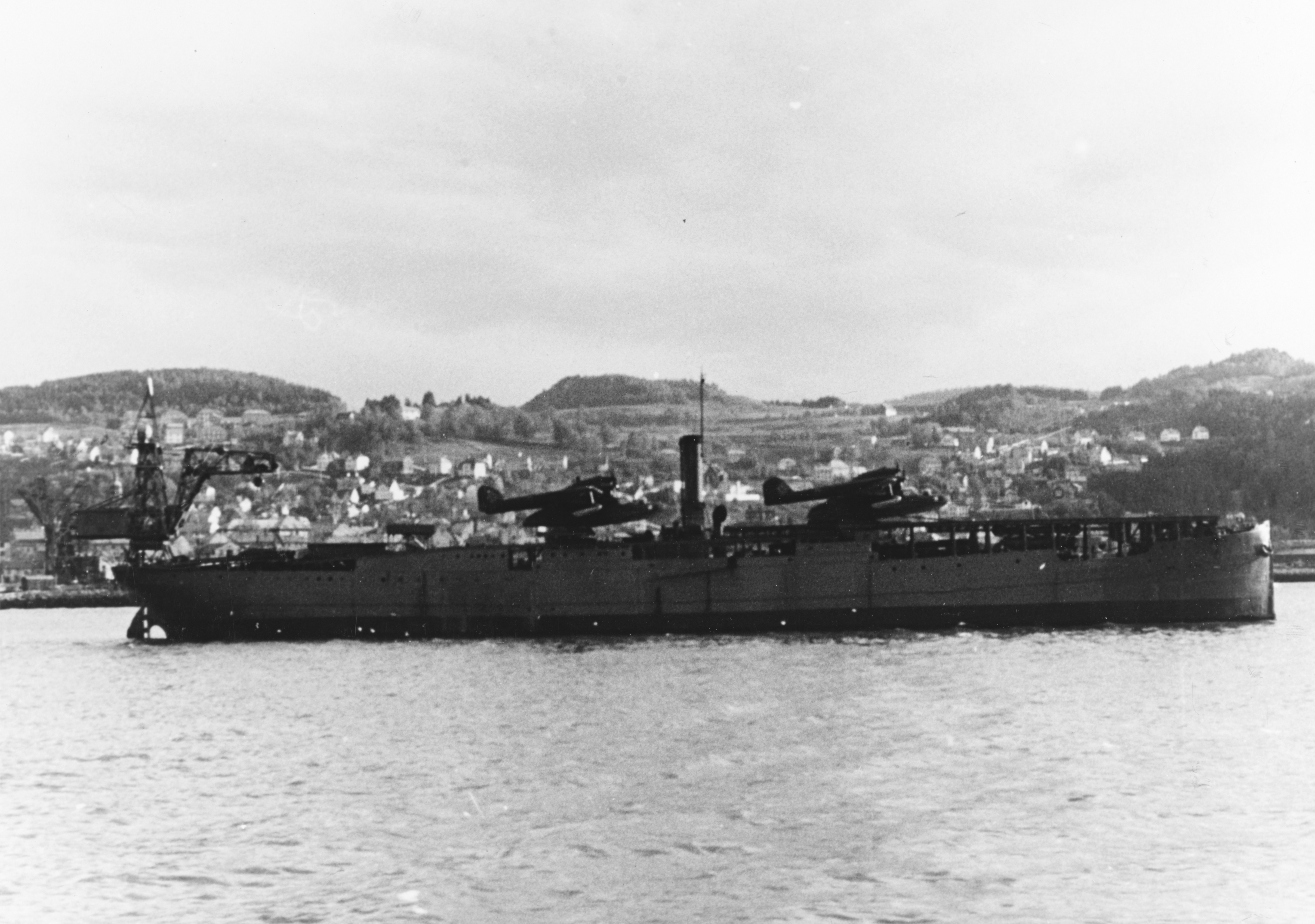 The German aircraft tender Westfalen at Tromsø, Norway, circa in 1943. Two Blohm & Voss BV 138 are visible on deck. Westfalen operated from Tromsø in early 1943, but was mostly stationed in Trondheim. She sank on her way to Germany in the Kattegat after hitting mines on 7-8 September 1944.